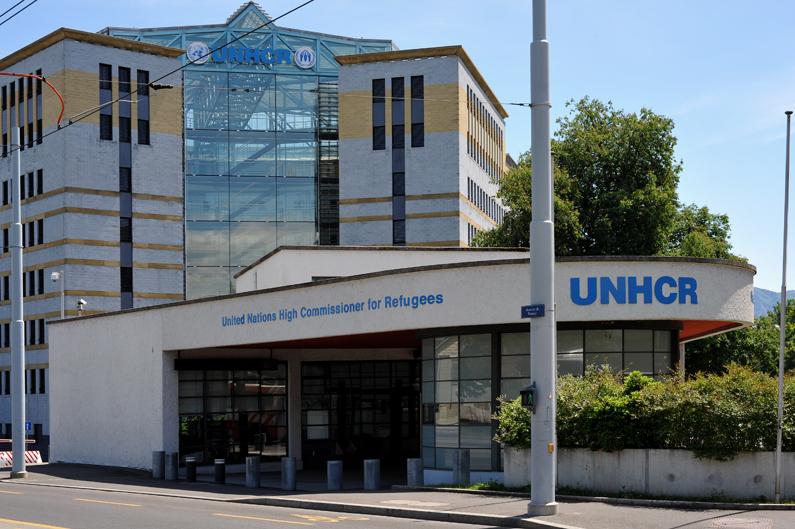 Garage des Nations in Geneva by Robert Maillart, built 1936; Geneva, Switzerland. Nowadays a memorial, which commemorates fallen in action UNHCR staff.